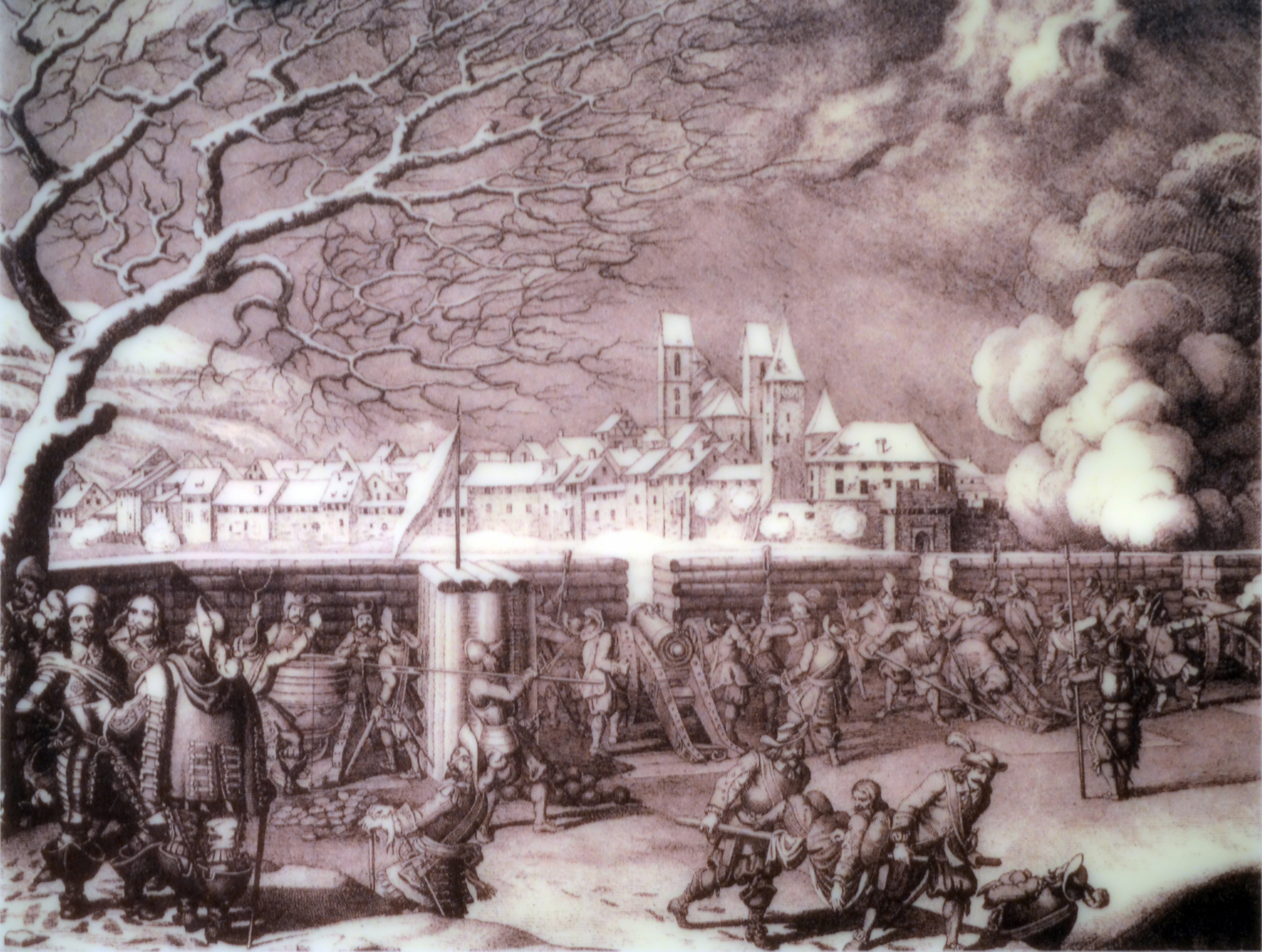 Collection of the Stadtmuseum) in Rapperswil (Switzerland)